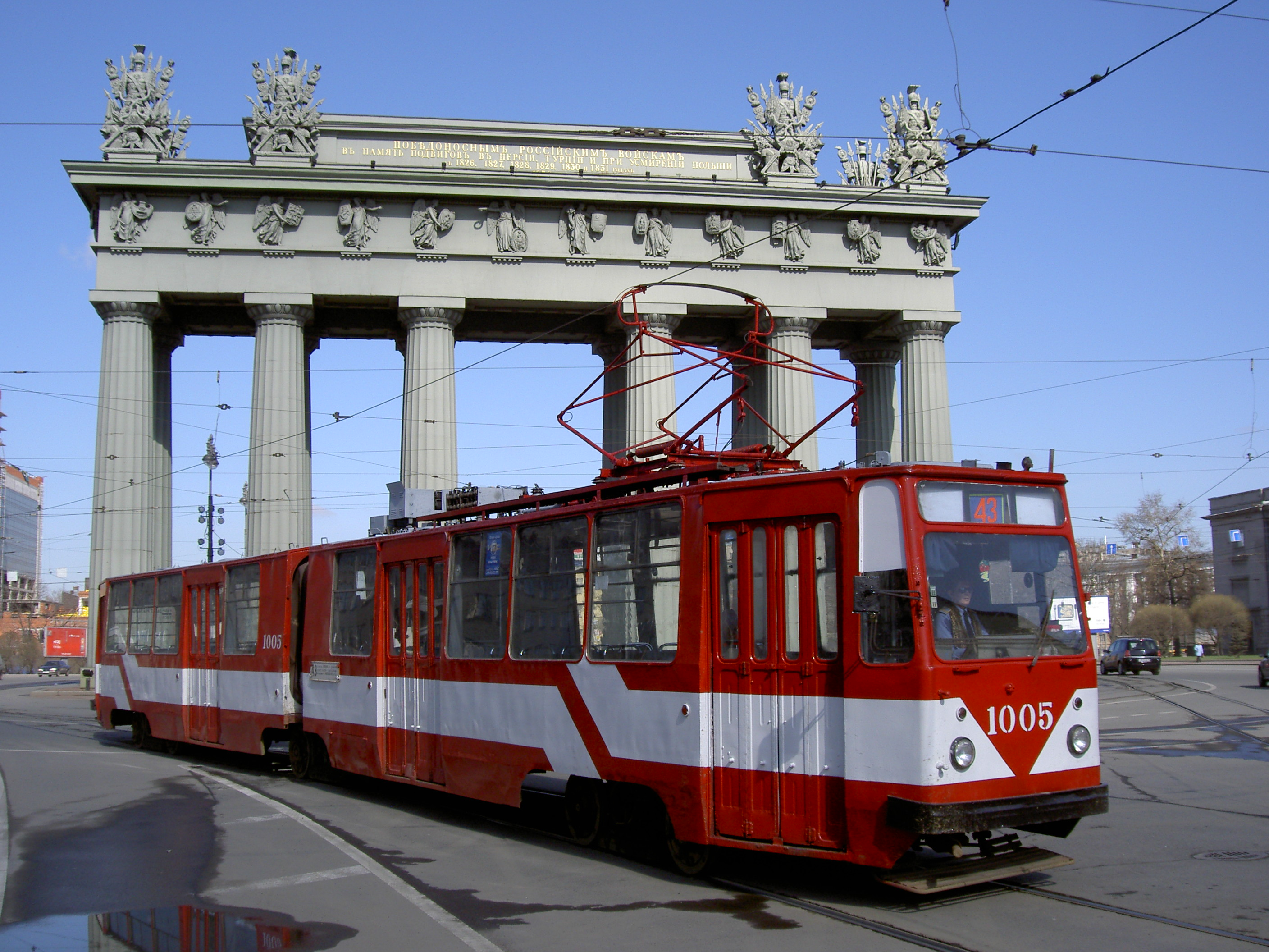 Tram at Moskovskiye Vorota square in Saint Petersburg